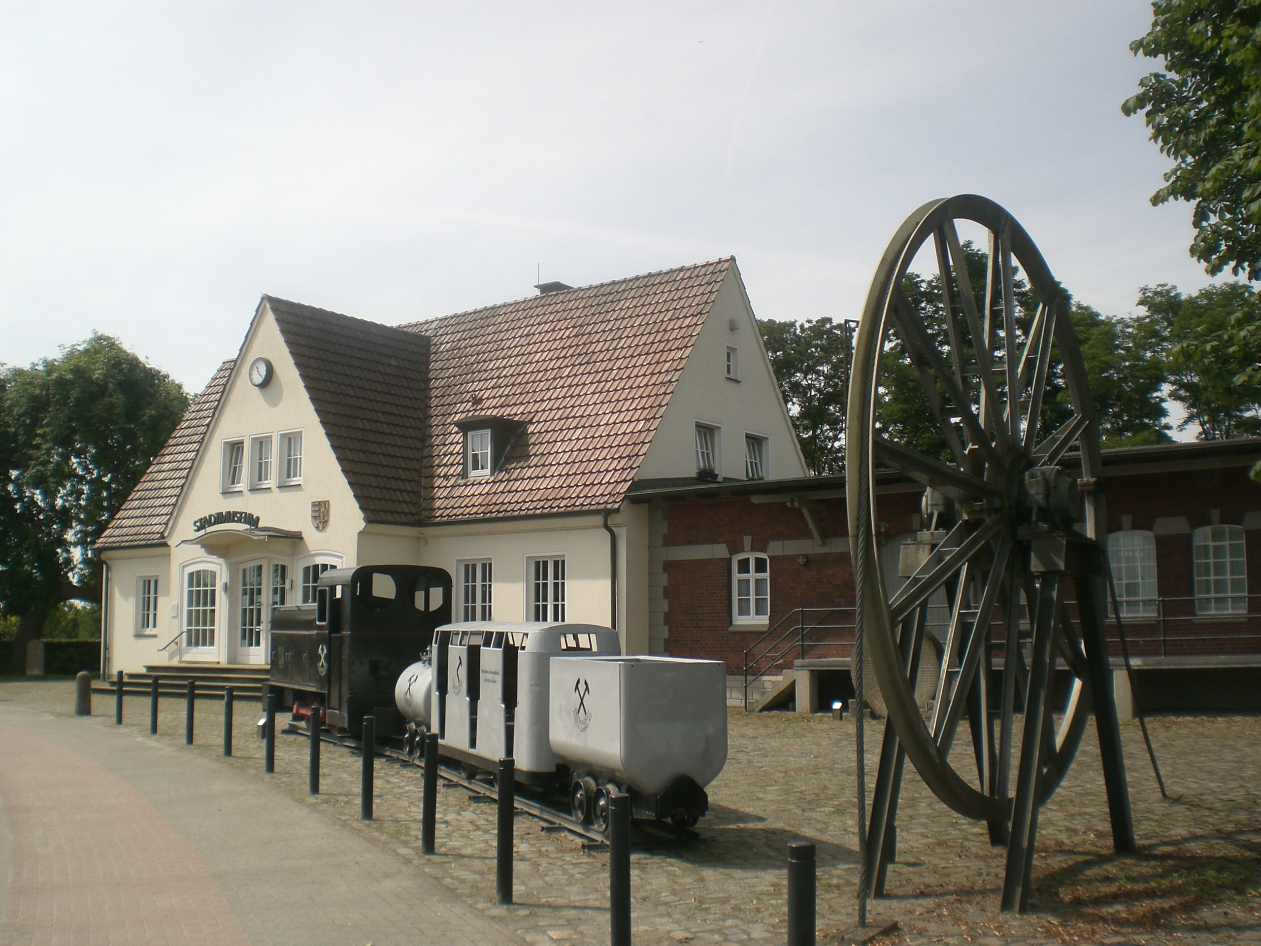 The town museum in Damme, Lower Saxony, Germany